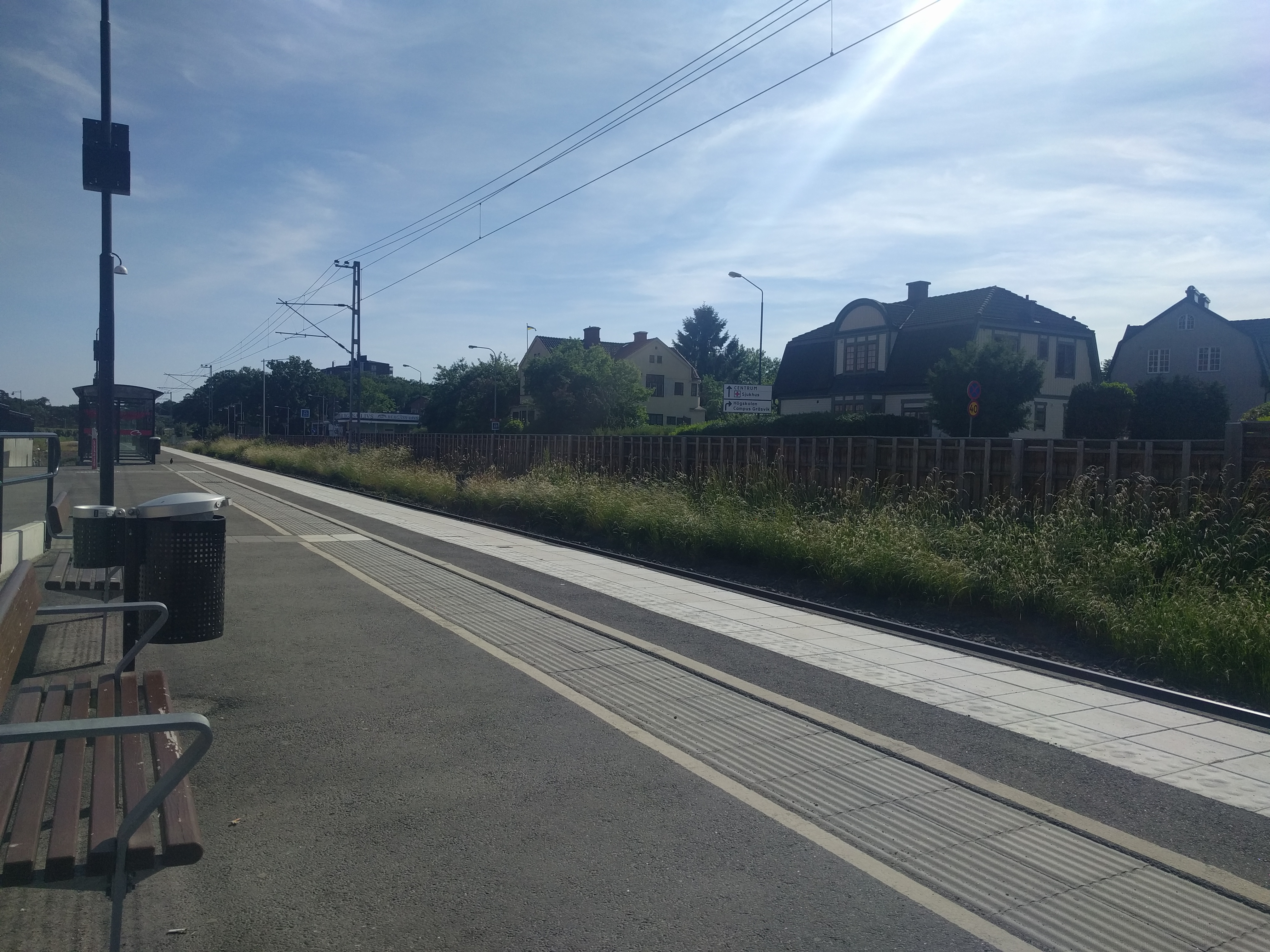 Bergåsa train station in Karlskrona.